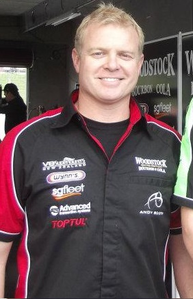 Andy Booth taking a fan photo Hampton Downs 2012